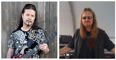 Photographs of John Payne (singer) and Erik Norlander of the band Dukes of the Orient, pictured in 2011 and 2008 respectively.